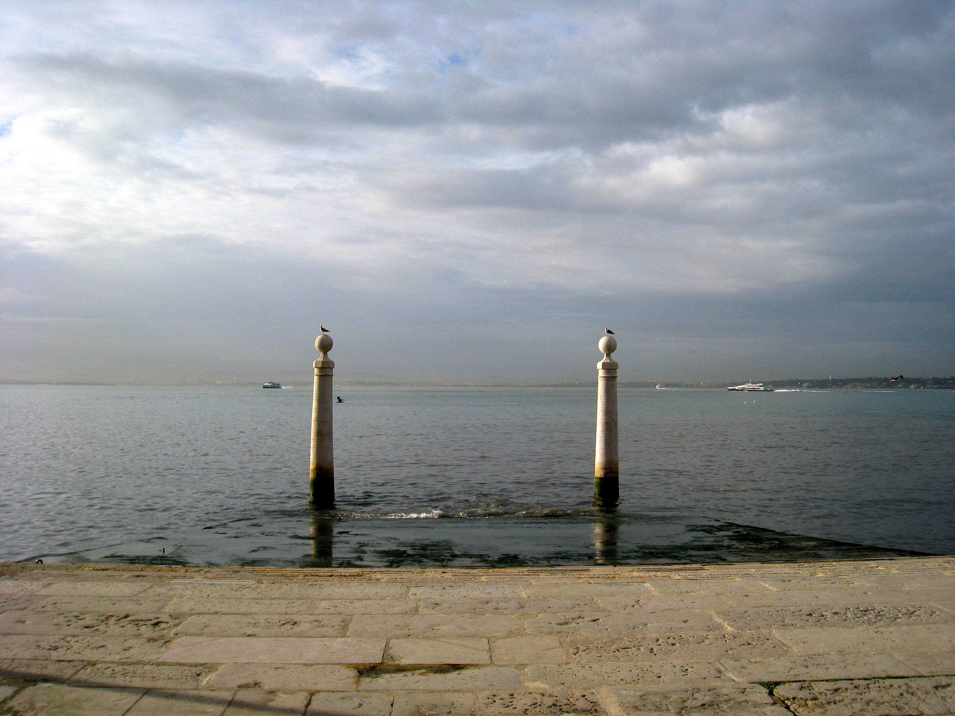 Lisbon With Langon - 01